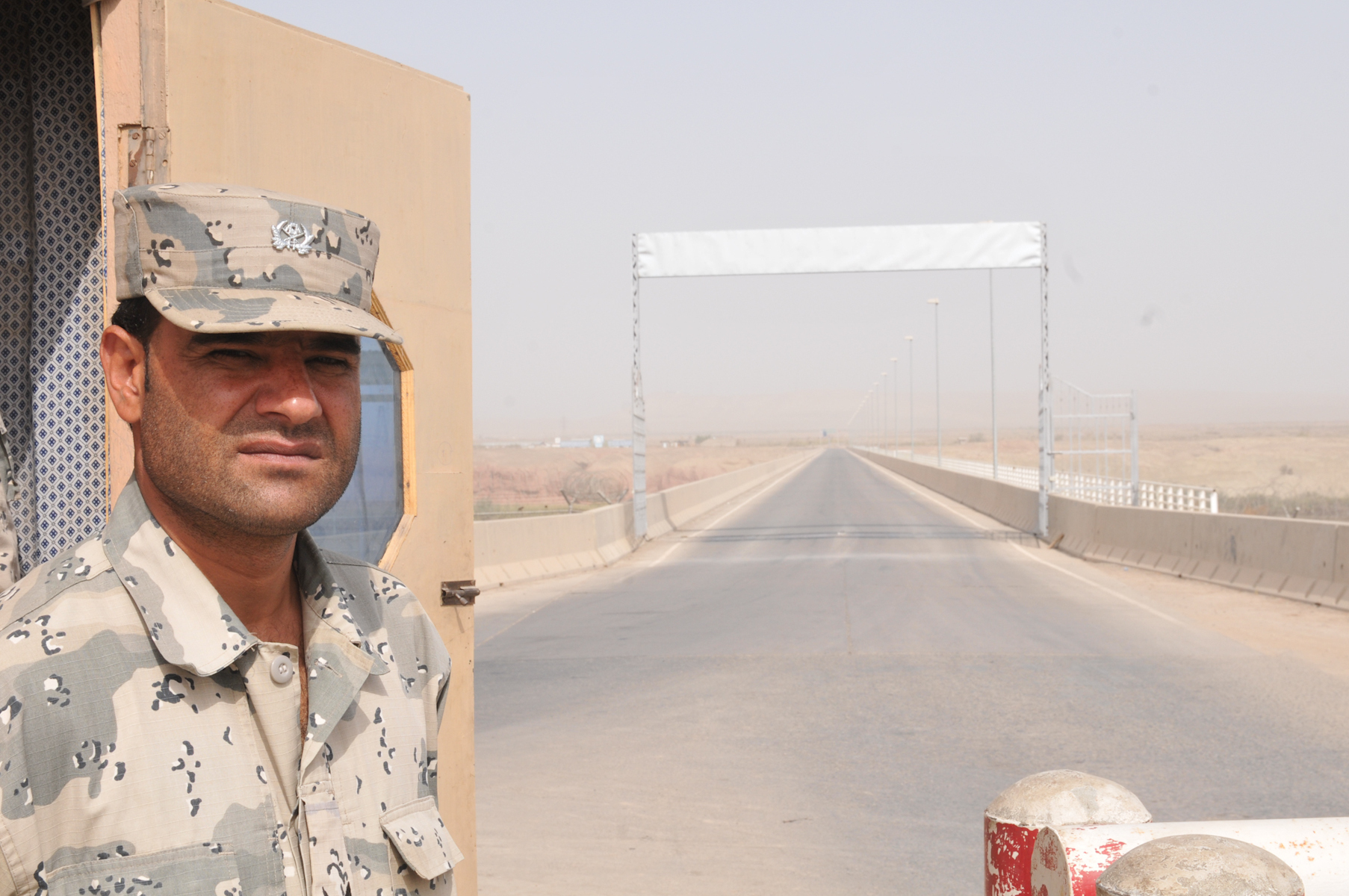 An Afghan Border Police patrolman stands guard at the Shir Khan border crossing point Oct. 3, 2011. A platoon of U.S. Army soldiers with 40th Engineer Battalion, 170th Infantry Brigade Combat Team, conducts daily patrols to the Afghan Border Police Headquarters near the border crossing point.